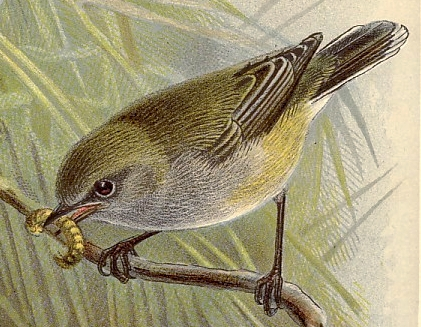 Grey Warbler Gerygone igata perched on a branch. Detail from Image:Eudynamistaitensis.jpg.